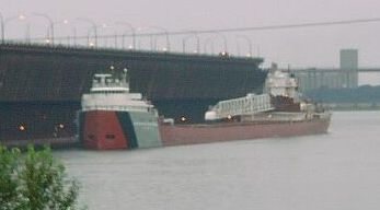 SS Arthur M Anderson @ Duluth Ore Dock, August 2002. IMO Number: 5025691 MMSI Number: 366972020 Callsign: WE4805 Length: 234 m Beam: 22 m